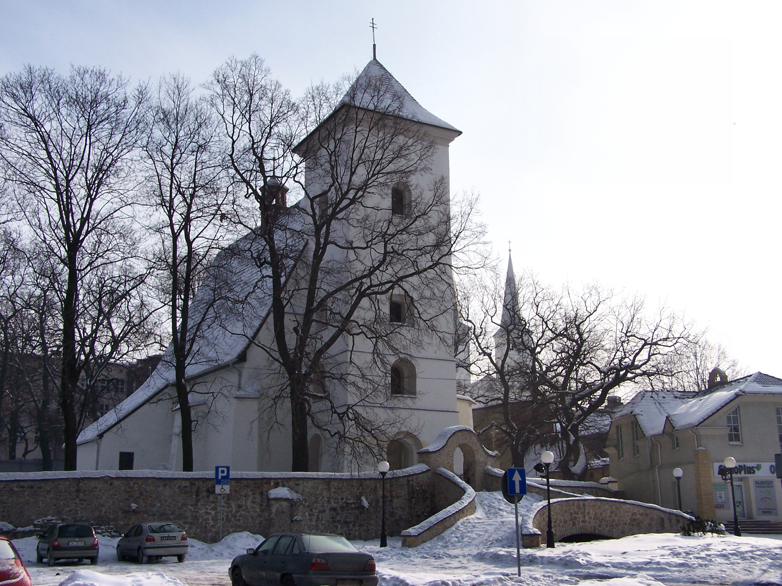 Old church in Mikołów (Poland).